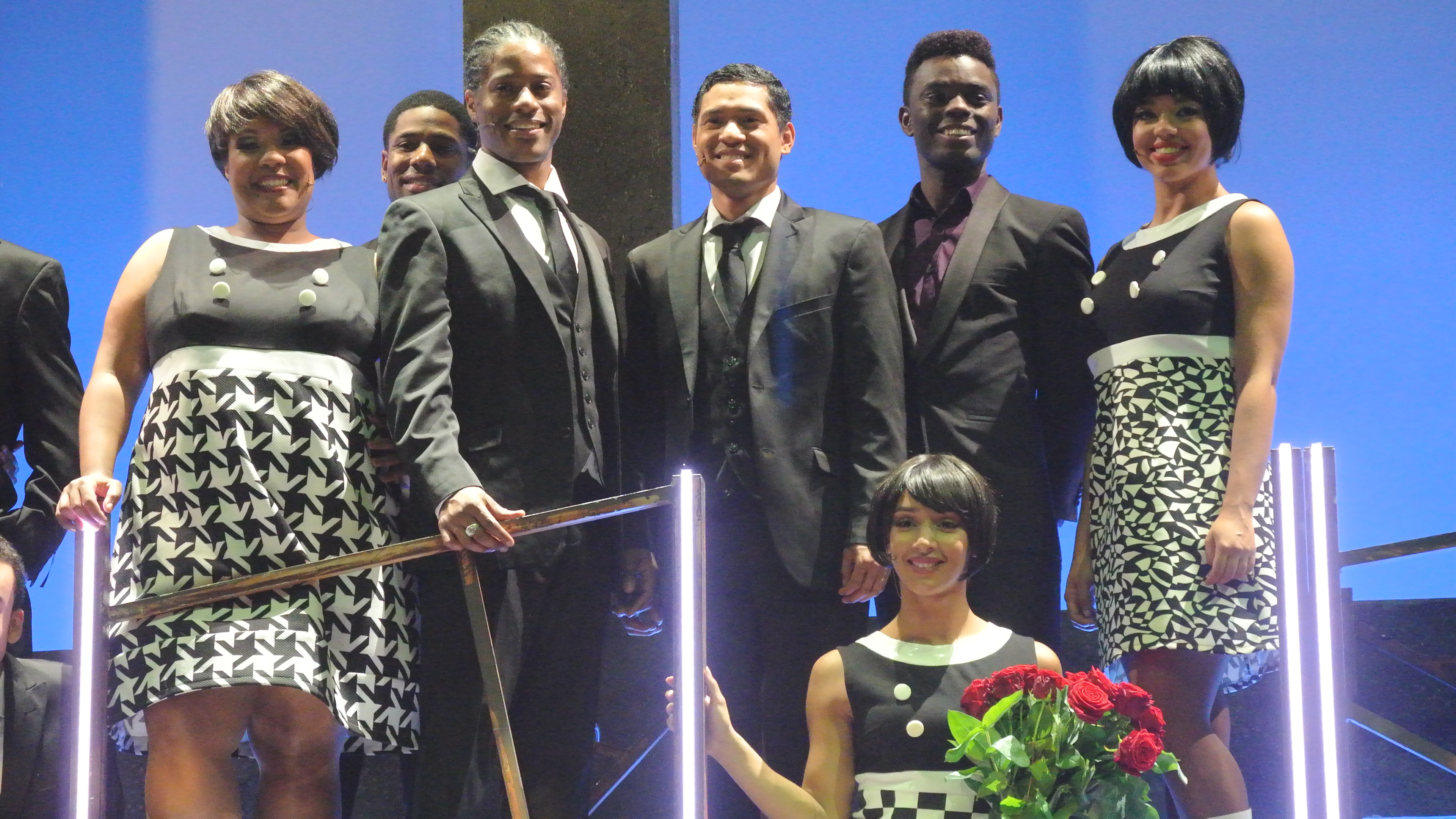 Some of the supporting actors in the Dutch version of the musical Dreamgirls. Picture taken after the show in th DeLaMar in Amsterdam on the 1st of May 2015.